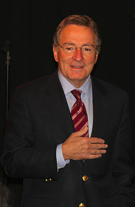 Picture of MPP David Zimmer, taken by Rob Fraser